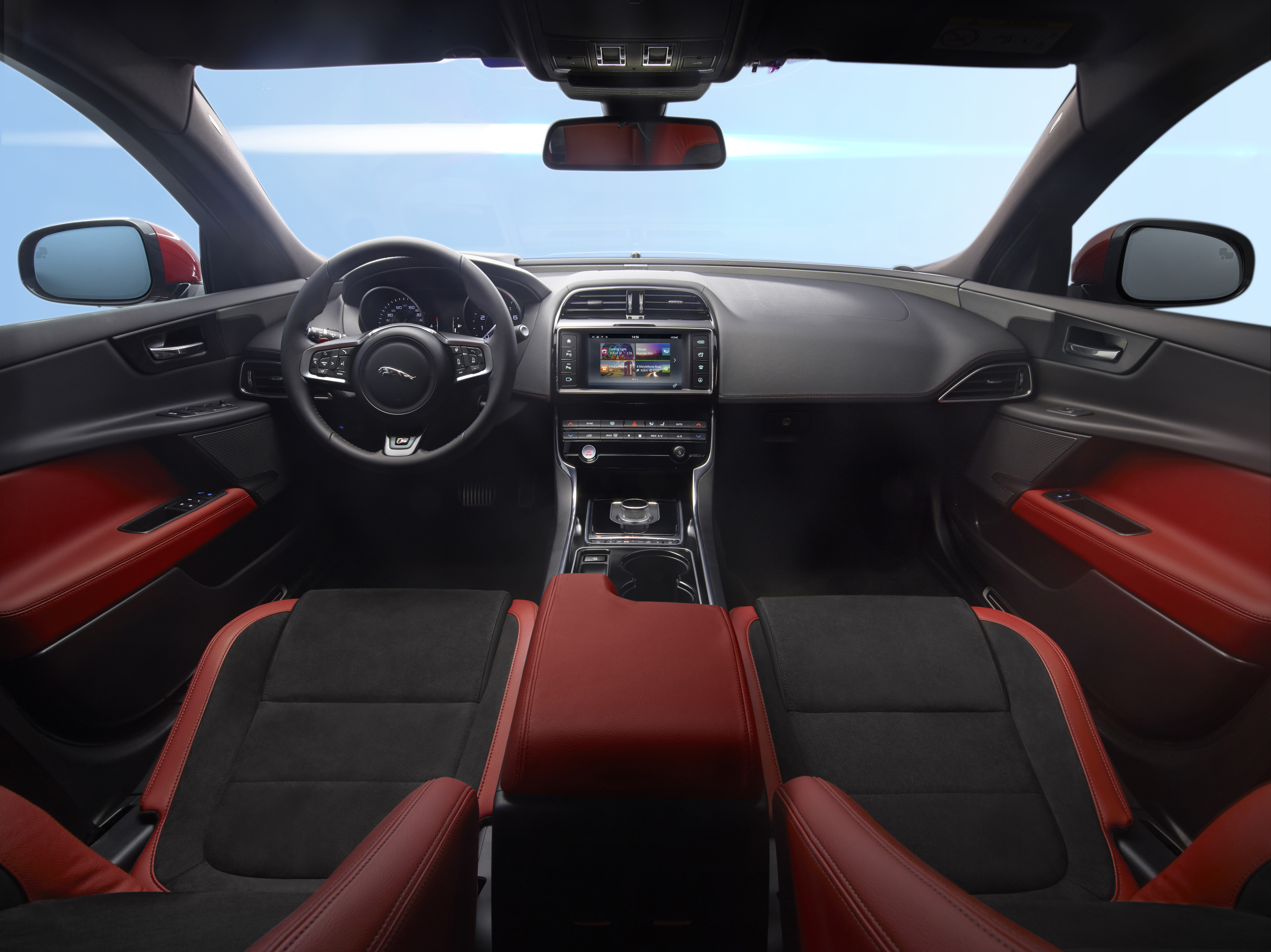 The Jaguar XE has been revealed to the world during a star-studded event held at Earls Court, London Discover more on